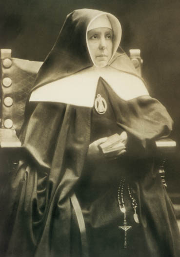 Portrait of Petra de San José, foundress of a religious congregation, Madres de los Desamparados